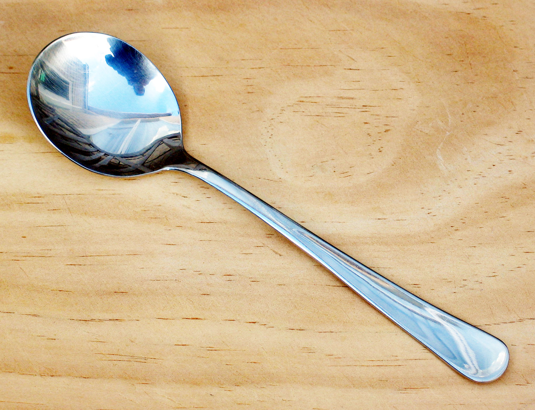 This is a soup spoon.